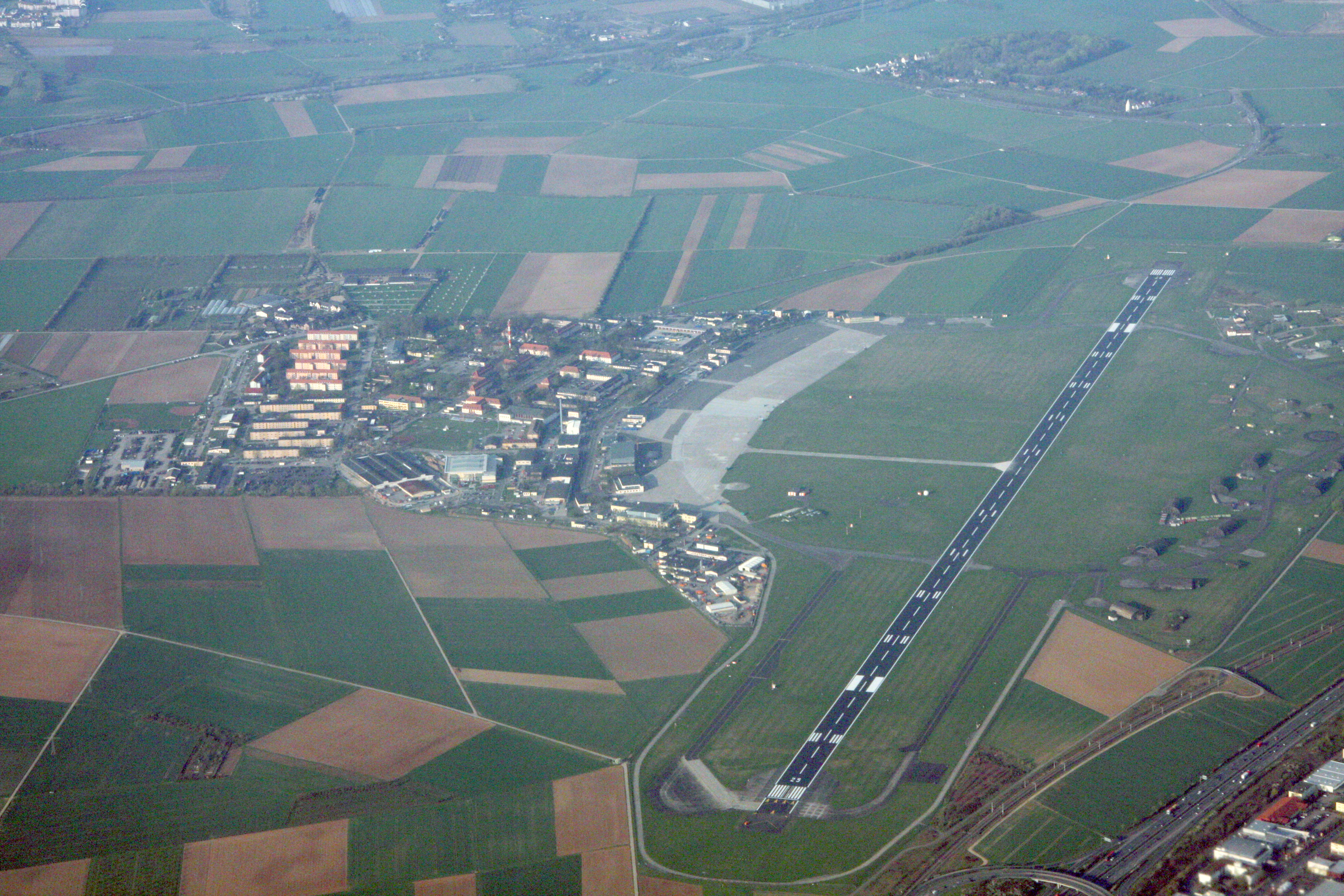 Aerial picture of the US-Airbase in Wiesbaden-Erbenheim, Germany